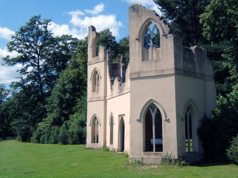 Painshill Park